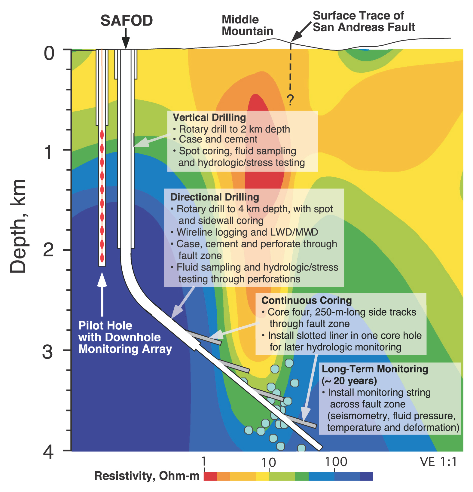 Schematic representation of the SAFOD borehole and pilot hole. The background colors show the structure of the upper crust determined from surface profiling, with blue dots representing and the approximate locations of microearthquakes located by the USGS and UC Berkeley seismology laboratories. The drill site will be located sufficiently far from the San Andreas Fault (as determined by surface fault creep, imaging, and microearthquake locations) to allow for rotary drilling and coring through the entire fault zone starting at a depth of about 3 km and continuing until relatively undisturbed country rock is reached on the far side of the fault. The main SAFOD hole will be drilled at the same surface location as the pilot hole, but offset from the pilot hole by about 20 m.